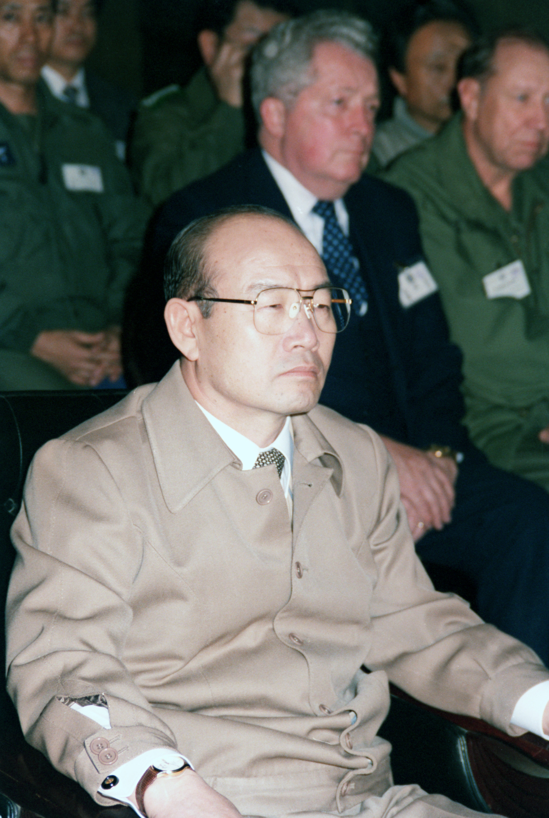 DA-SC-86-08943 Korean President Chun Doo-hwan attends a briefing given be Major General (MGEN) Claude M. Kicklighter, Commander, 25th Infantry Division, during the joint U.S./South Korean Exercise TEAM SPIRIT'85.